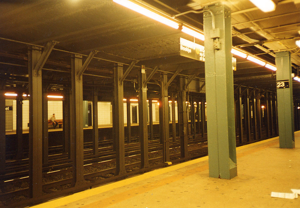 w:23rd Street (BMT Broadway Line) Subway Station in New York, 1999